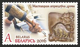 Artistic processing of wood.